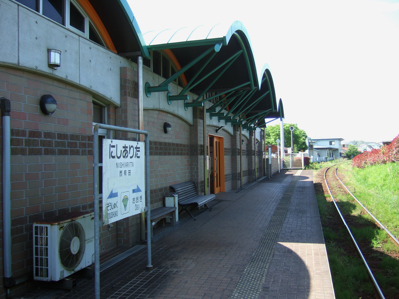 松浦鉄道西有田駅（Matsuura Railway Nishi-Arita Station）